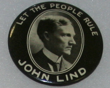 1898 political button promoting John Lind for Governor of Minnesota with the slogan "Let the people rule."